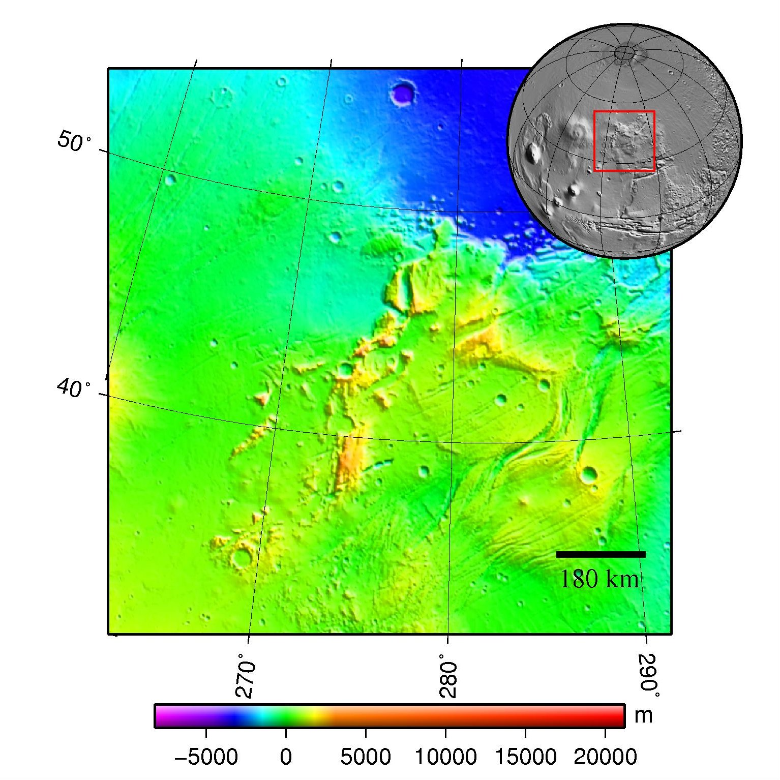 Topography map of Tempe Terra on Mars